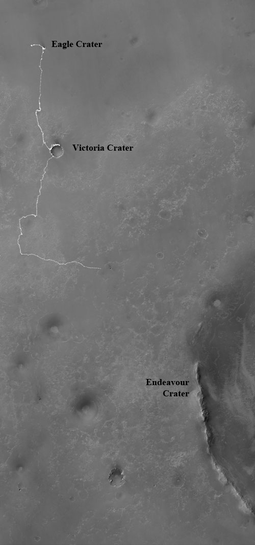 Annotated Opportunity traverse map as of Sol 2442 (08 DEC 2010)